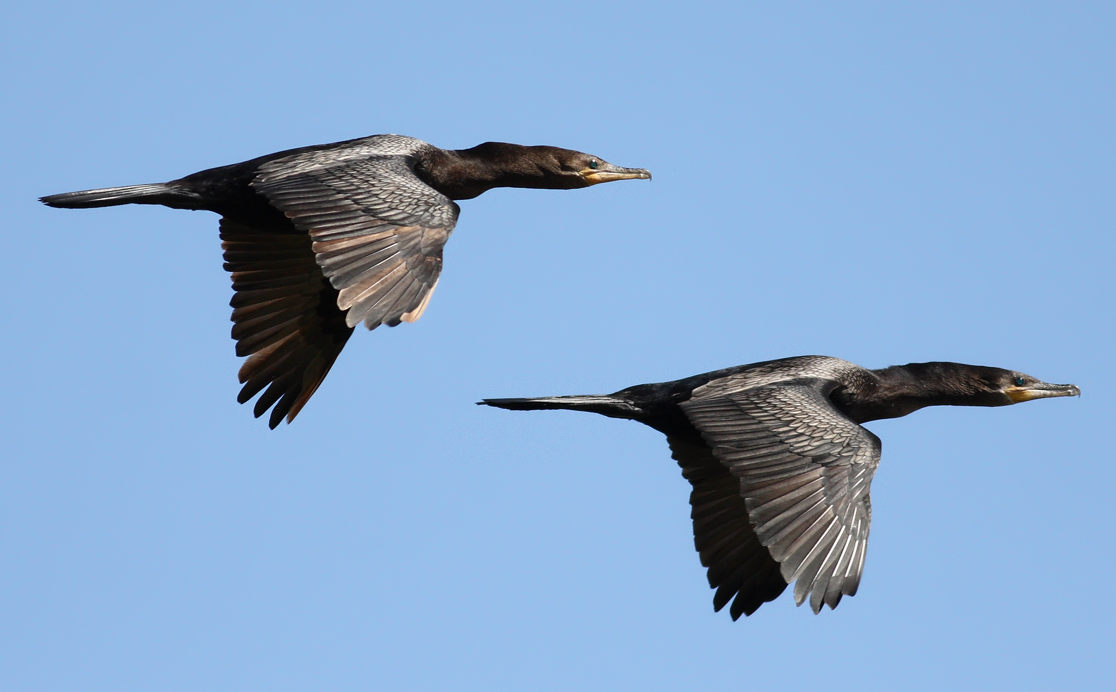 Two Neotropic Cormorants (also called Olivaceous Cormorant) flying in Argentina.